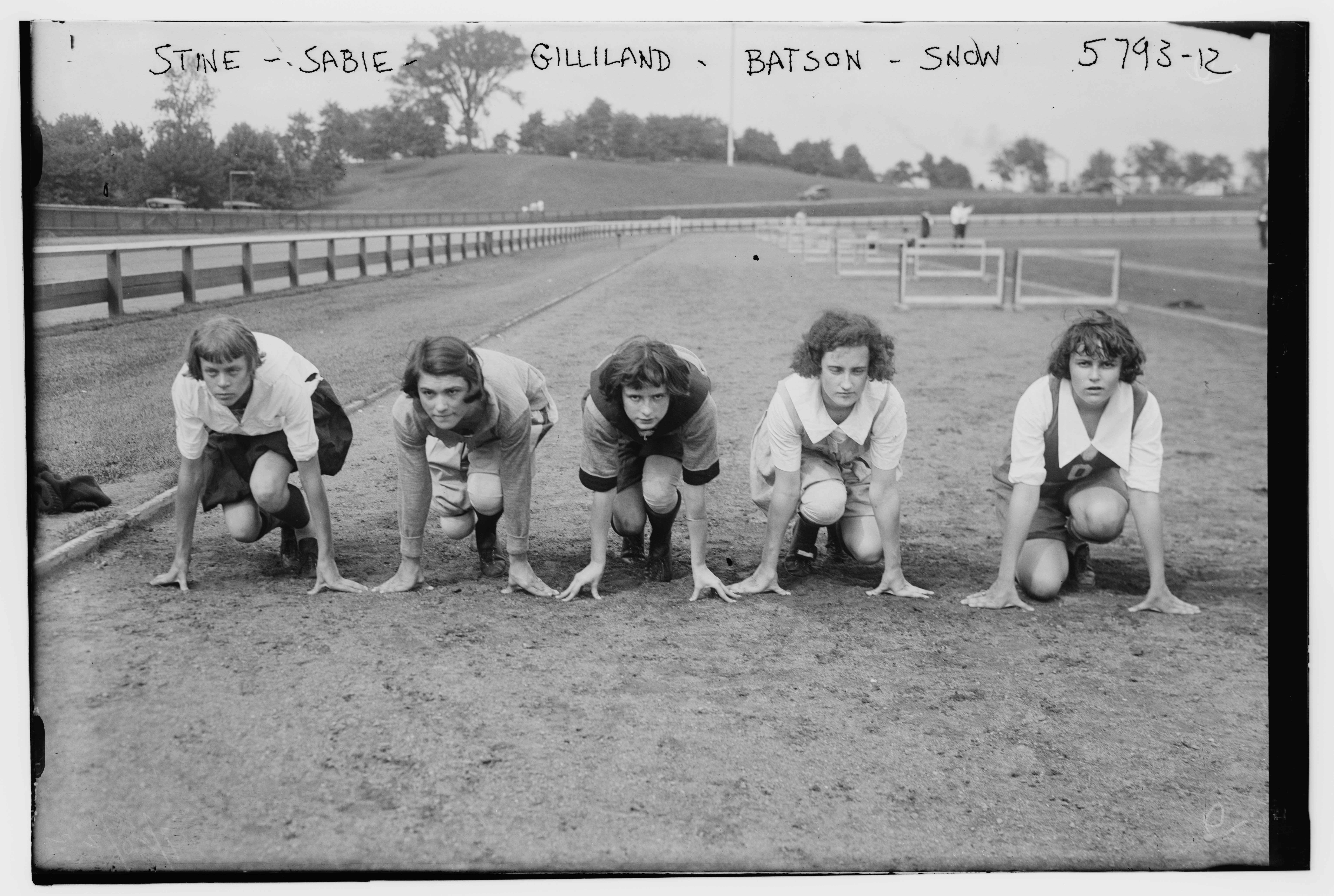 Title: Stine, Sabie, Gilliland, Batson, Snow [ready for race] Abstract/medium: 1 negative : glass ; 5 x 7 in. or smaller.